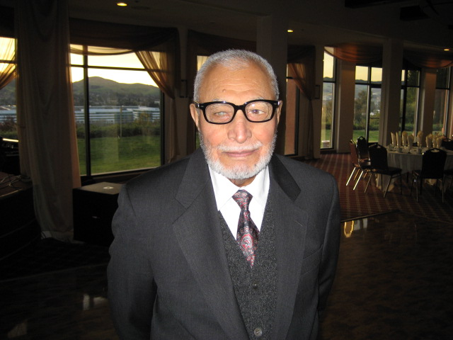 General Asif Khan January, 2007.